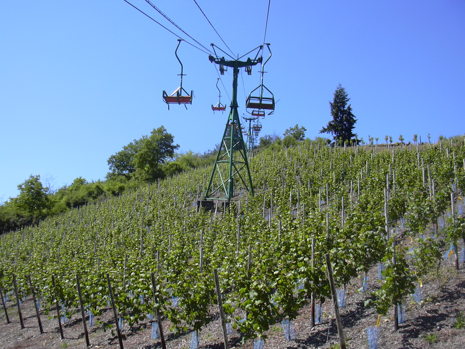 Chairlift Vierseenblick Boppard Rhine Valley/Germany